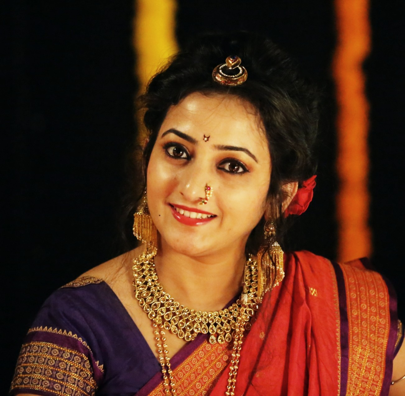 Clicked During Photoshoot.